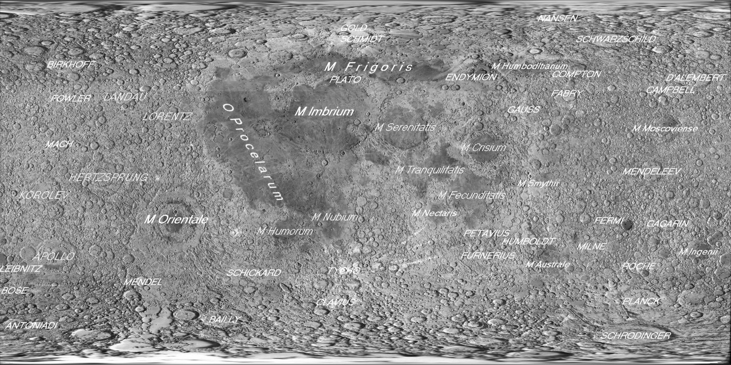 cylindrical map projection of the Moon